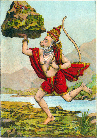 Vinatge Authentic Raja Ravi Varma Lithograph: Maruti : 7" x 9" Original Raja Ravi Verma Lithograph